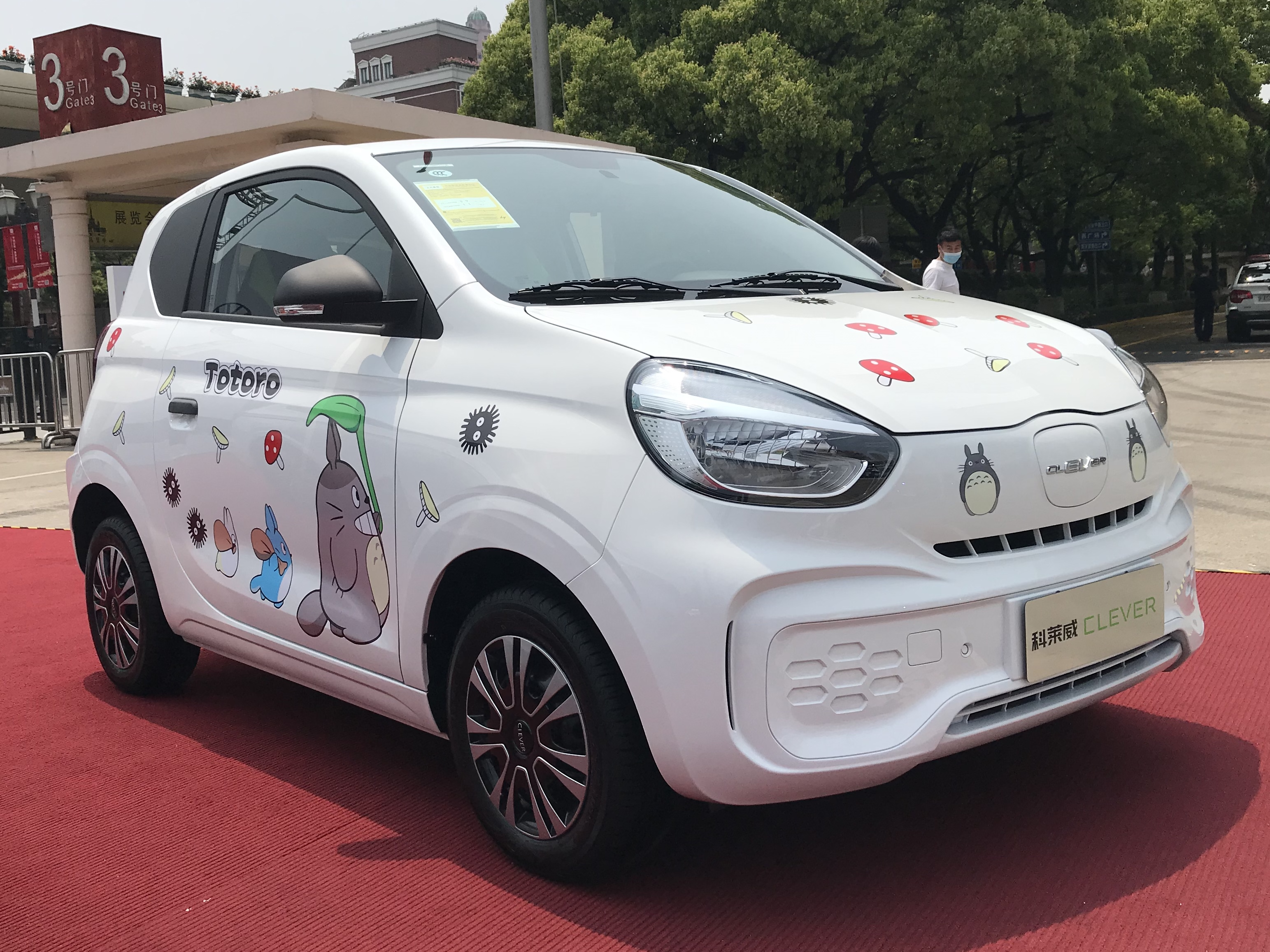 Roewe Clever EV